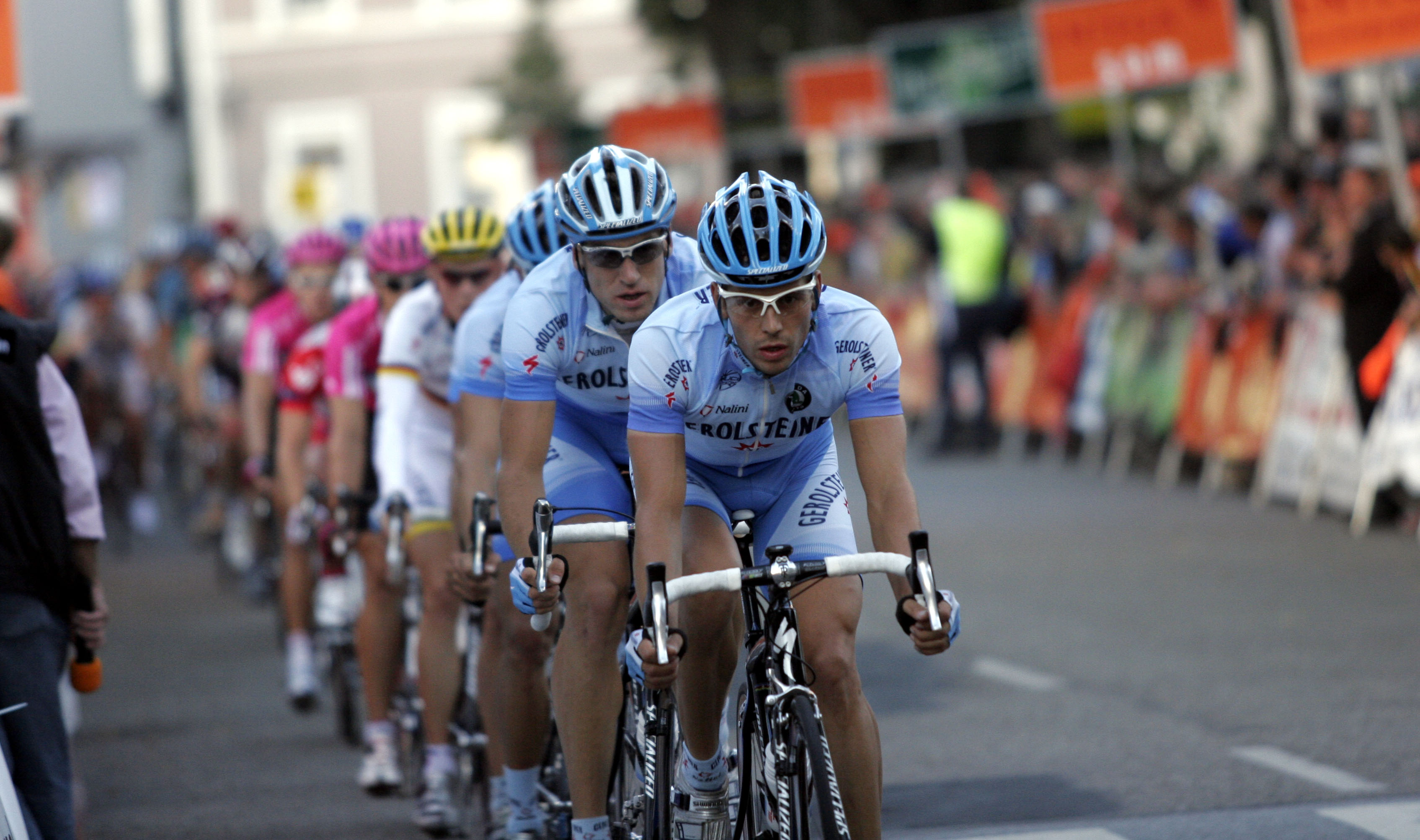 The peleton during the Entega Grand Prix 2007 in Lorsch (Hesse, Germany)